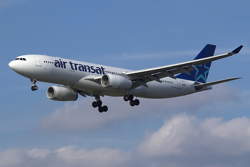 Air Transat Airbus A330-200 C-GITS in Frankfurt am Main.